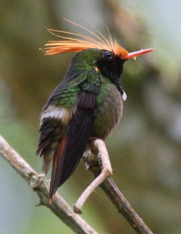 A Rufous-crested Coquette in Panama.